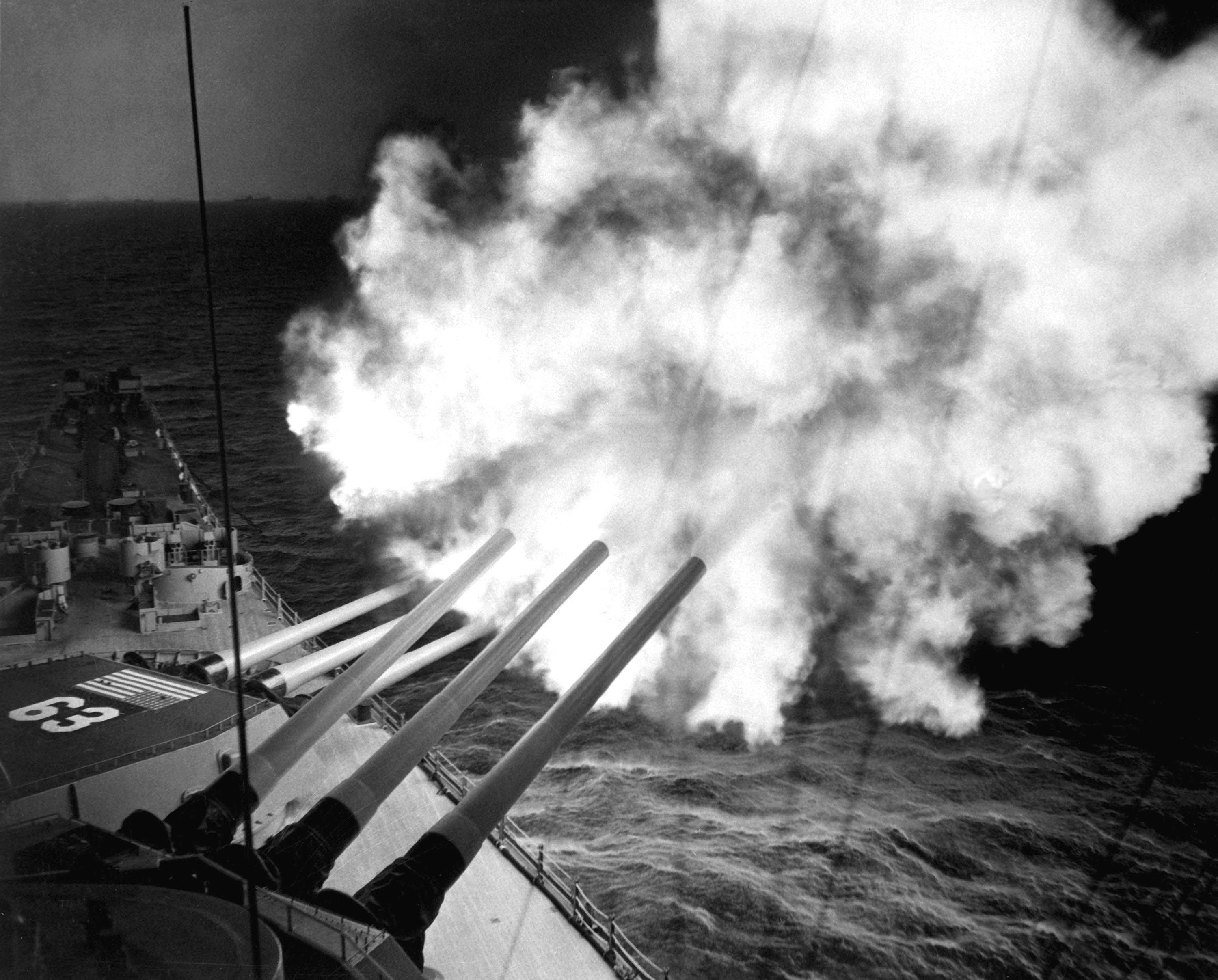 The USS Missouri fires 16-inch shell into enemy lines at Hungnam. A 16-inch 3-gun salvo is on its way to commies. December 26, 1950. (Navy) NARA FILE #: 080-G-426954 WAR & CONFLICT BOOK #: 1445 Cleared for public release. This image is generally considered in the public domain - Not for commercial use. U.S. Army Korea - Installation Management Command